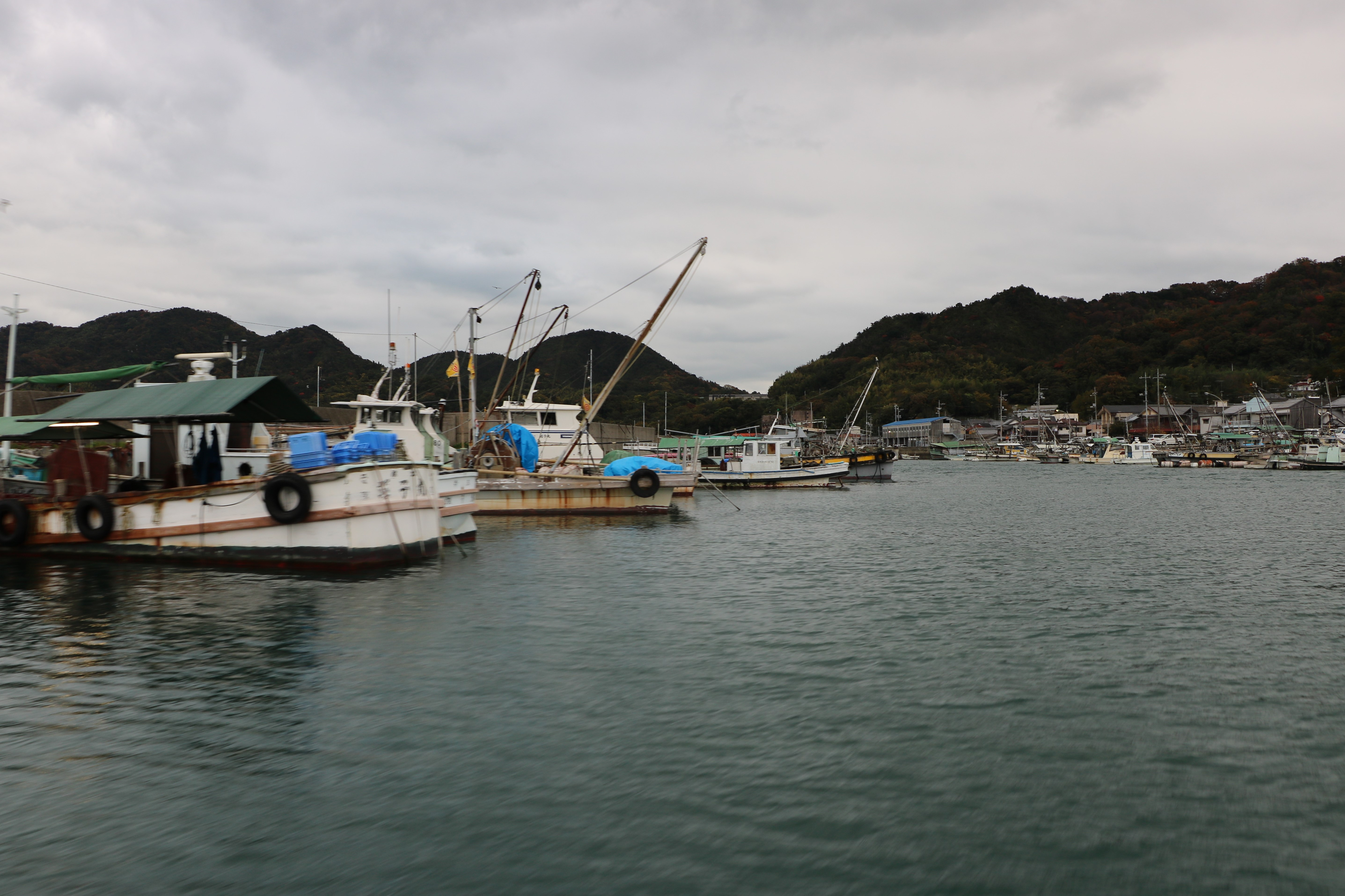 Miyakubo fishing port.